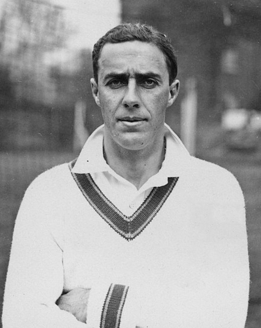 May 1924: South African cricketer JM Blanckenberg.